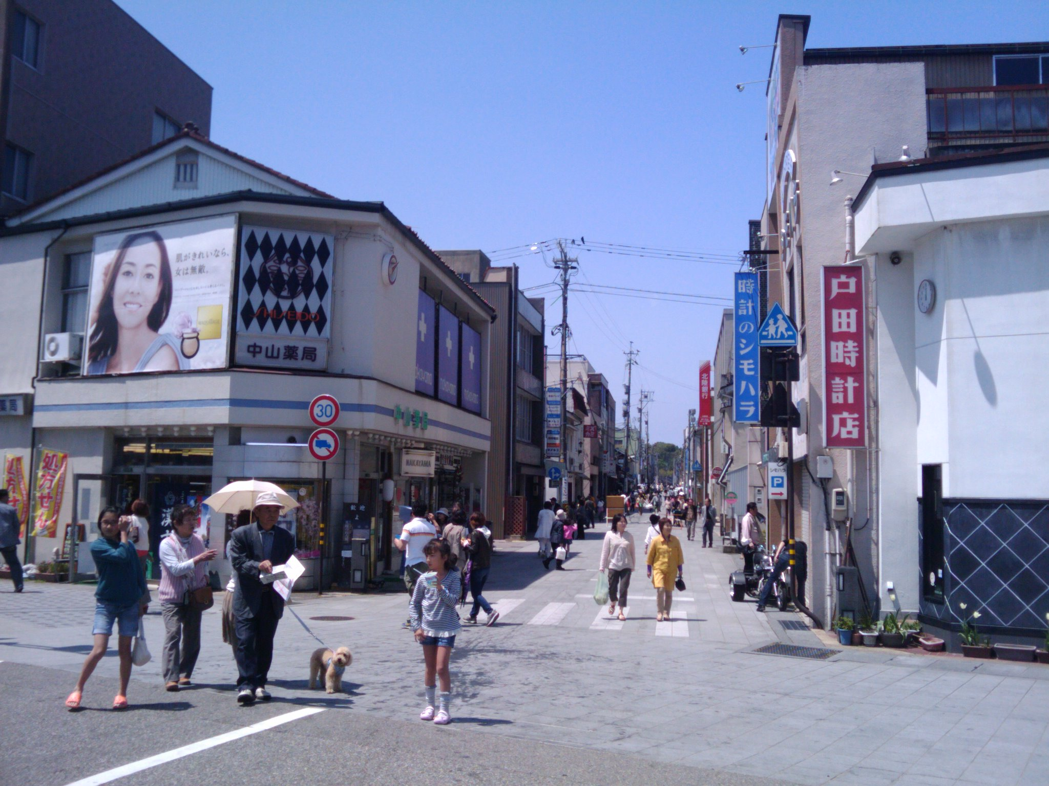 Ipponsugi Street in Nanao, Ishikawa, Japan